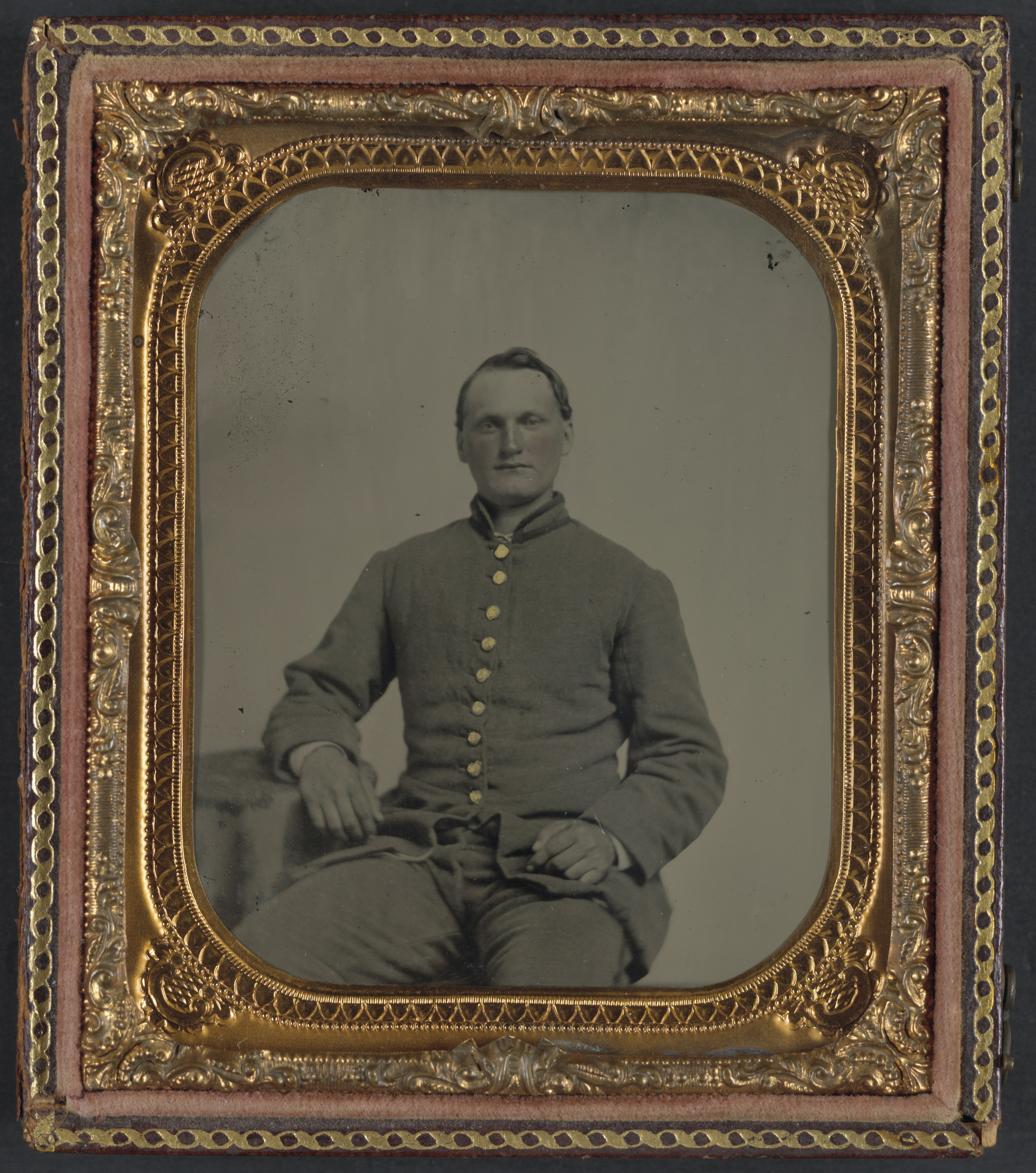 Title: Private Eli Franklin of Company B, 1st South Carolina Infantry Regiment Abstract/medium: 1 photograph : sixth-plate ambrotype, hand-colored ; 9.3 x 8.0 cm (case)